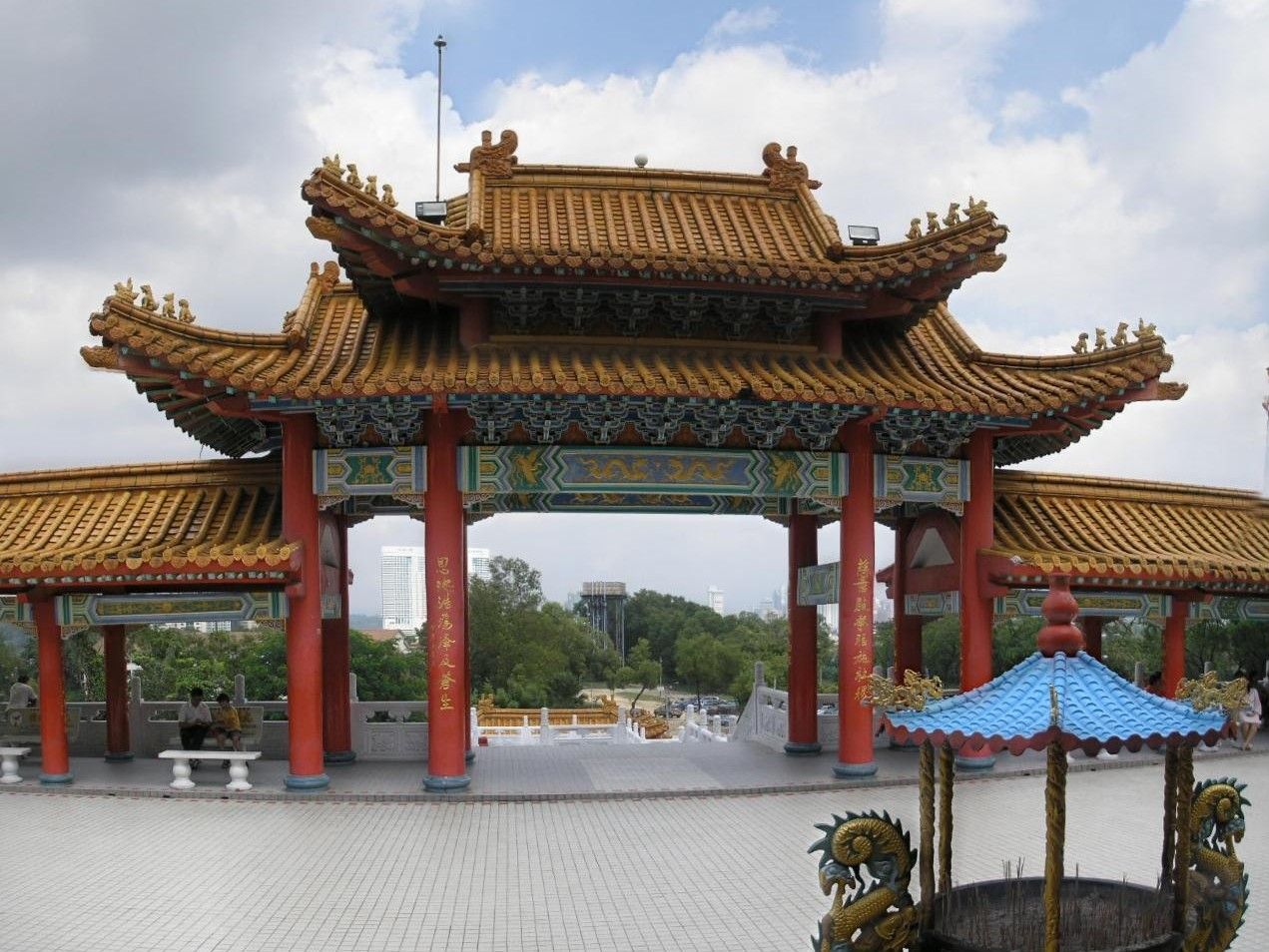 The Thean Hou temple in Kuala Lumpur.